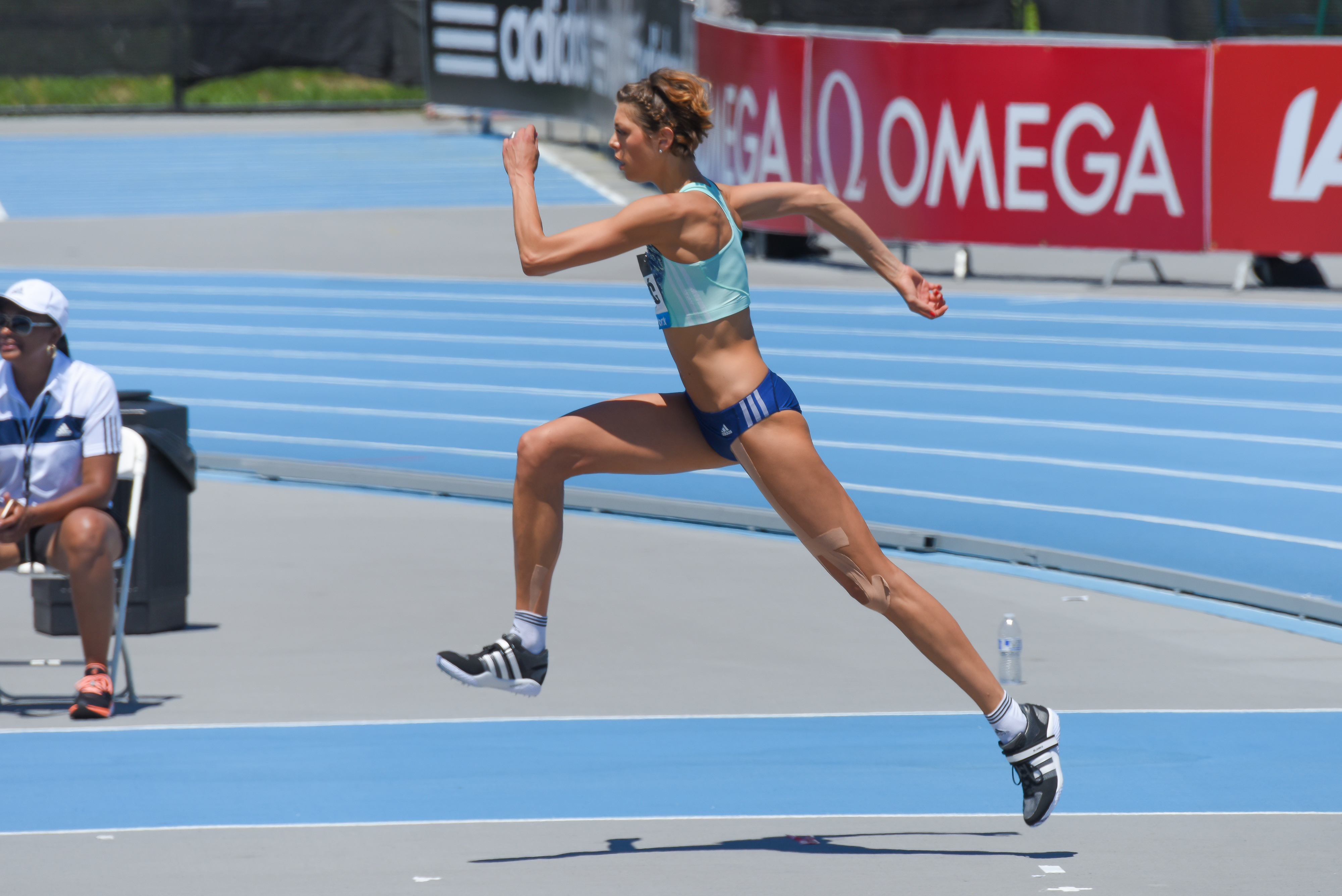 June 13, 2015 Icahn Stadium, Randall's Island Brooklyn, NY